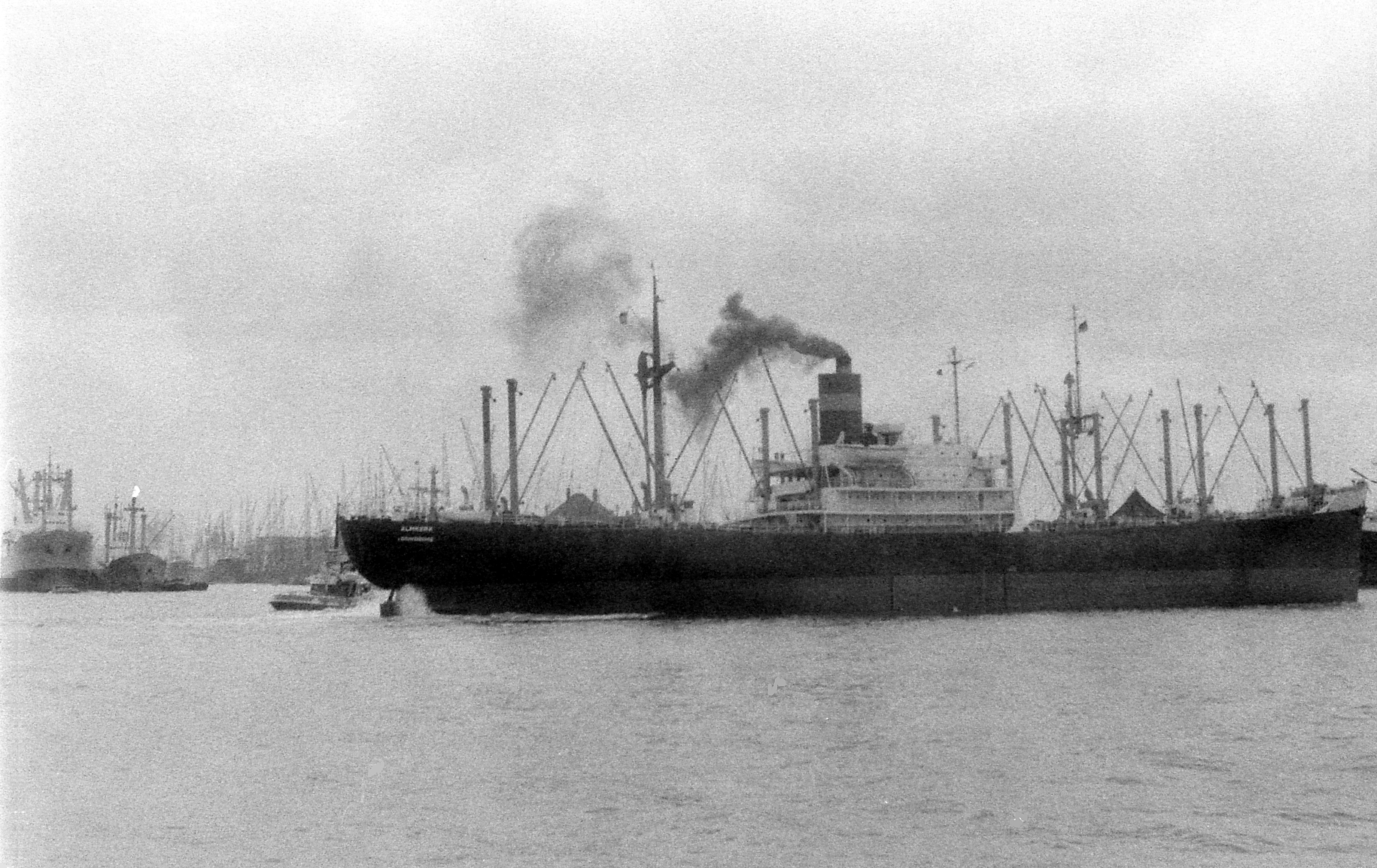 Hamburg harbor - C3-ship Almkerk - maneuvers 1 - 1965